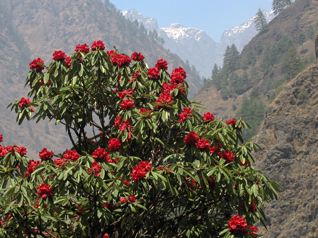 Rhododendron on Manaslu circuit, Nepal